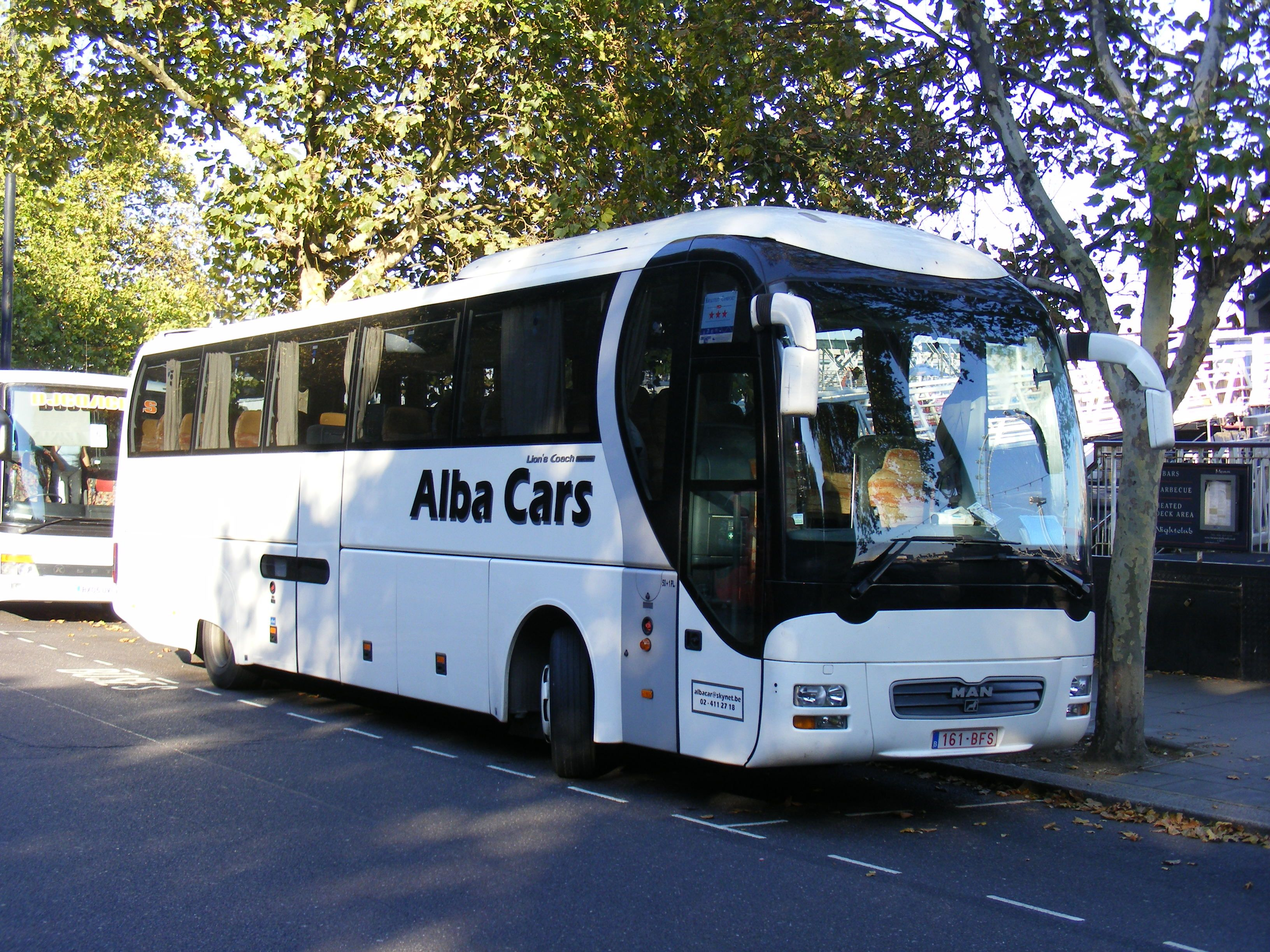 Lions Coach, Alba Cars, Belgium. The email address on the vehicle leads to Autocars Islamaj Hajrudin Édouard Bénèslaan 176 , 1080 Sint-Jans-Molenbeek (Brussel) previously Albacars BVBA Groot-Bijgaardenstraat 497 1082 BRUSSEL-BRUXELLES Perhaps under Albanian ownership,from the fleetname and the proprietors name..